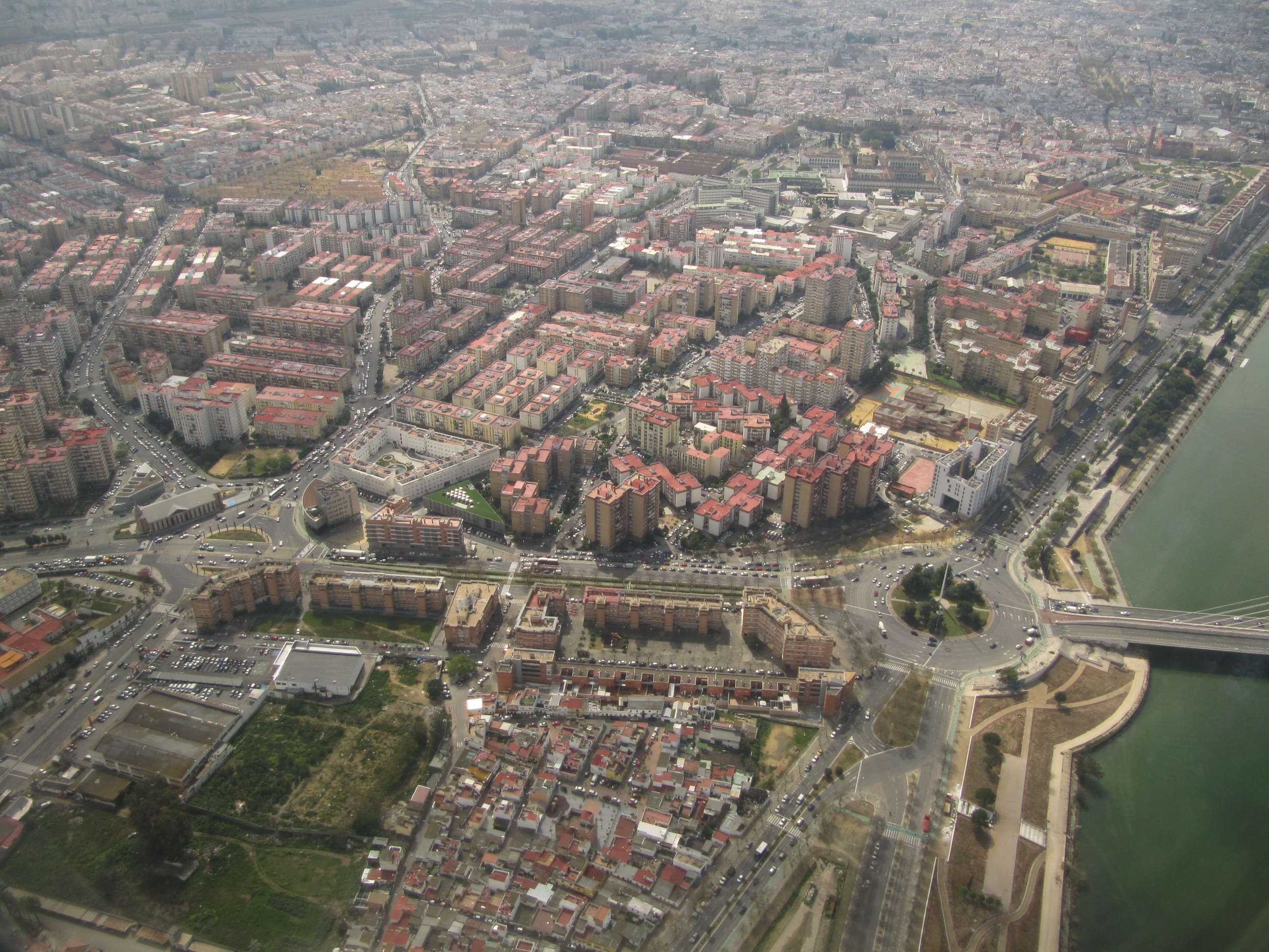 Macarena (Sevilla)